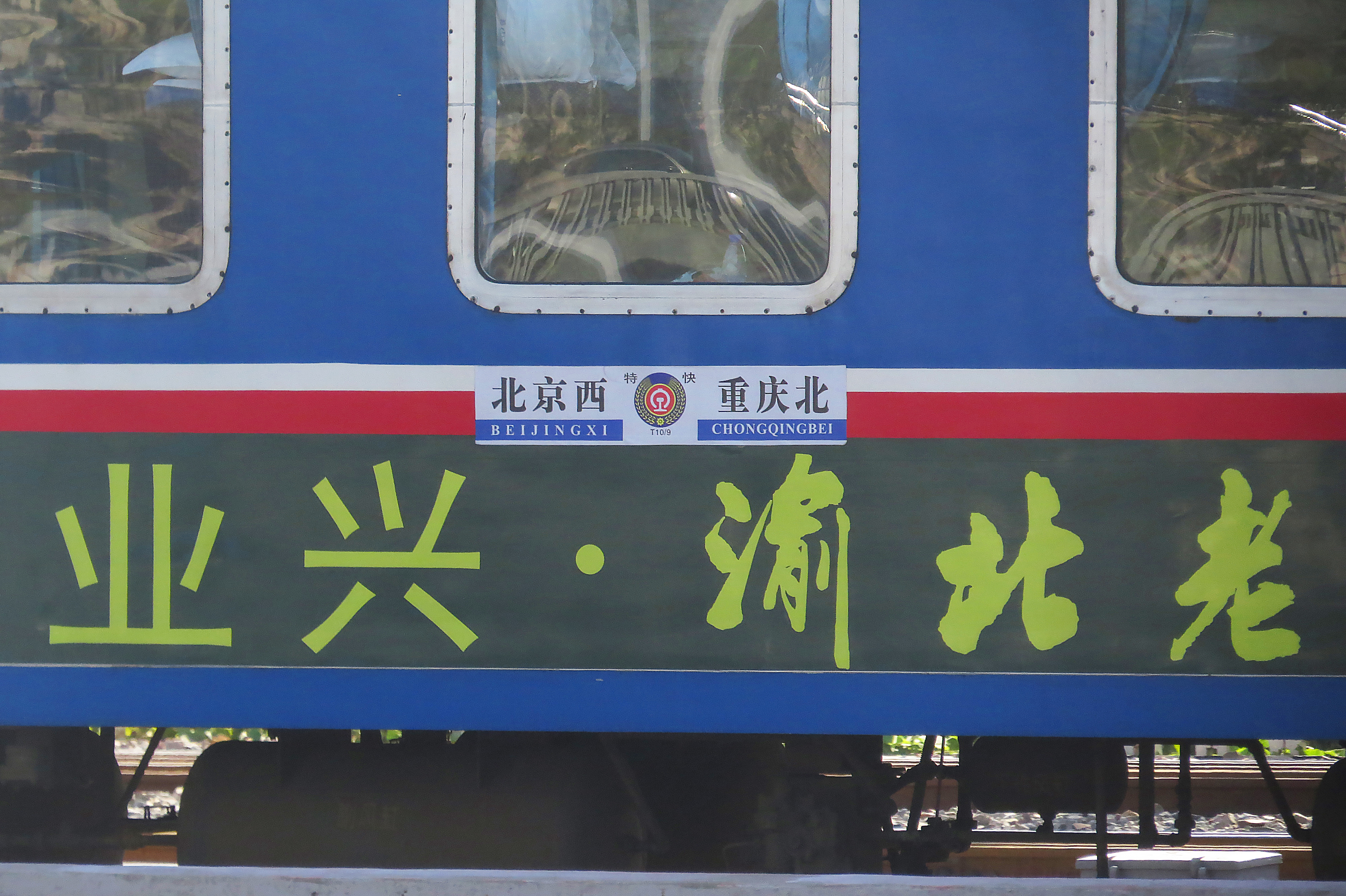 Late arrival from Chongqing North with a local alcoholic advertisement.